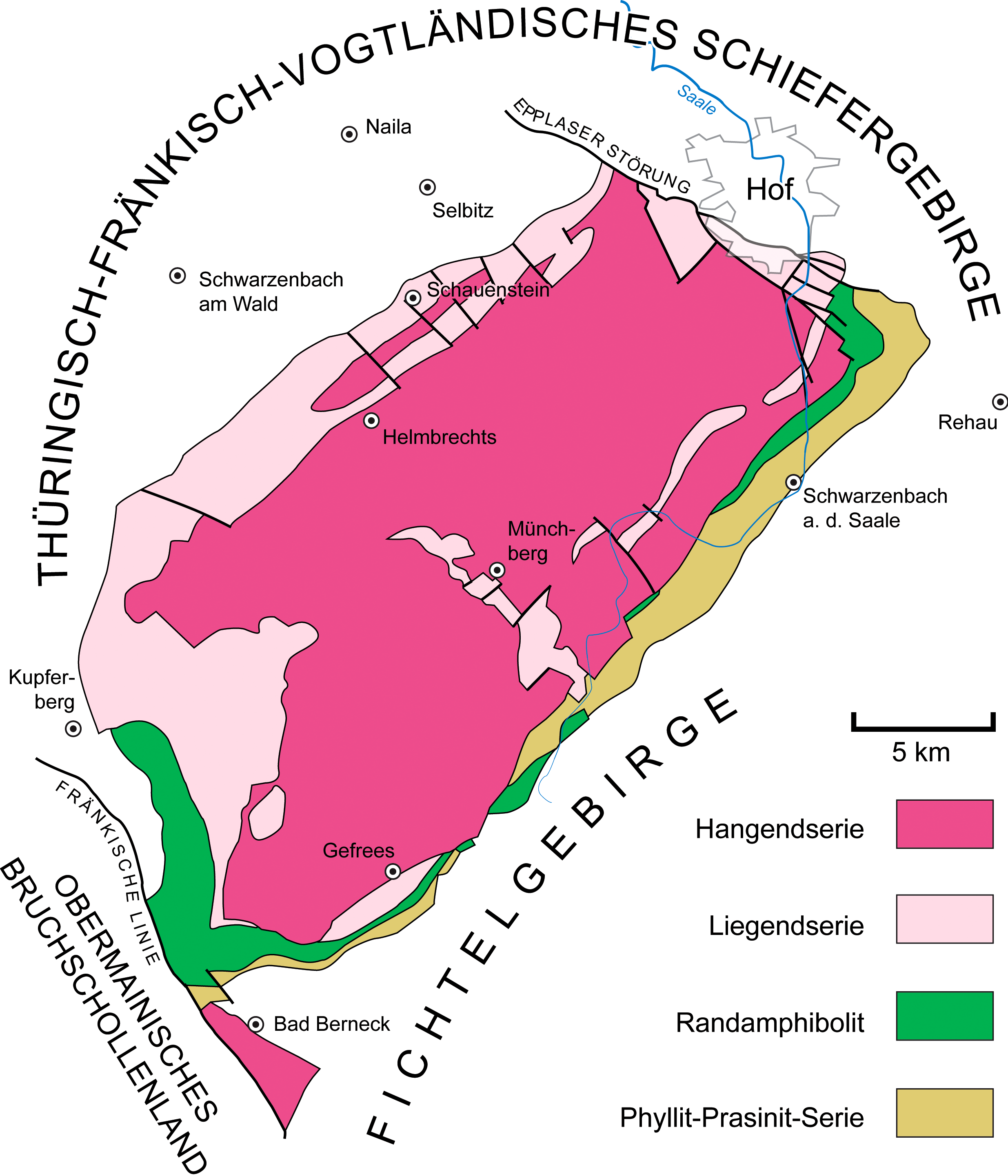 Simplified geological map of the Münchberg Massif, an exotic block of high to moderate metamorphic, late Proterozoic to early Paleozoic rocks, surrounded by lowest grade and unmetamorphosed Paleozoic rocks. Variscan fold belt of central Europe, northeastern Bavaria, Germany.